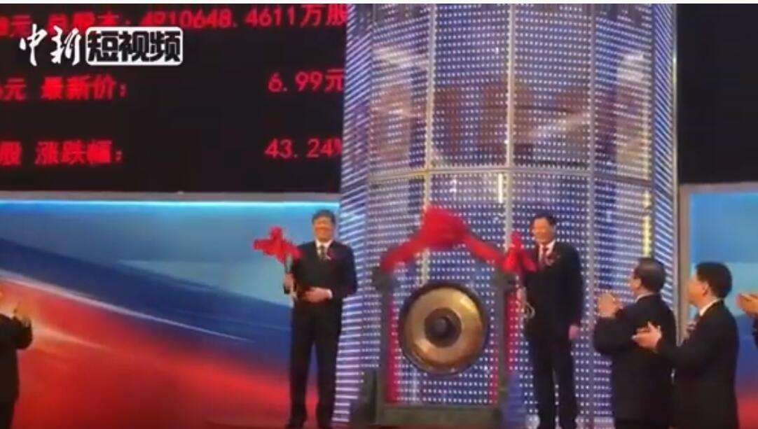 Beijing–Shanghai High-Speed Railway Corporation listed SSE on January 16, 2020 at 09:30 (UTC+8)